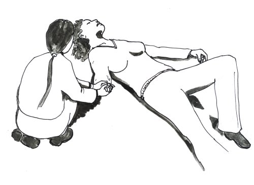 Approaching the patient: the rescuer comes in front of the patient, introduces herself, and asks the patient to squeeze her hand, in case she would be too weak to speak